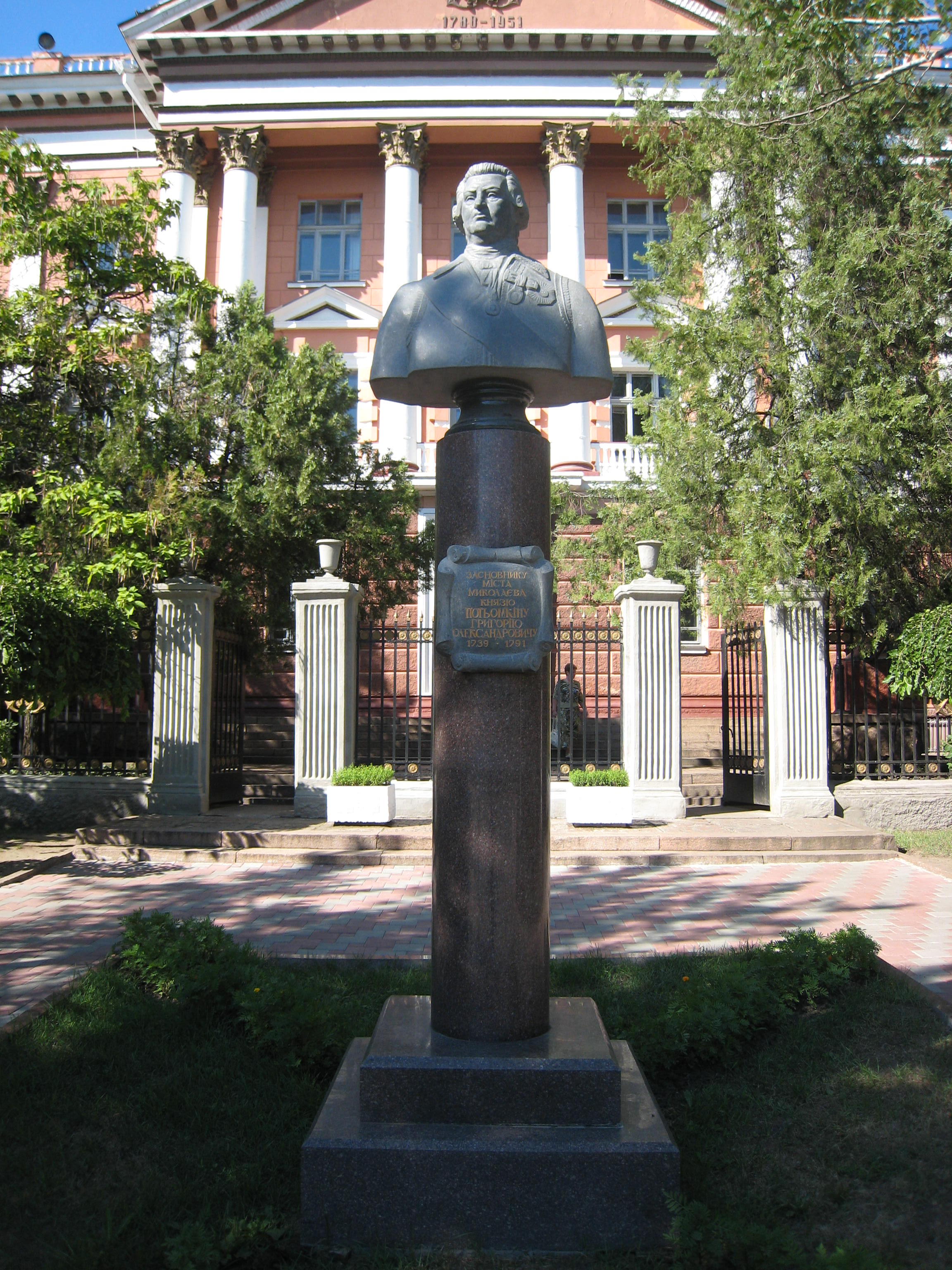 Monument to Grigory Potyomkin in Mykolaiv, Ukraine.